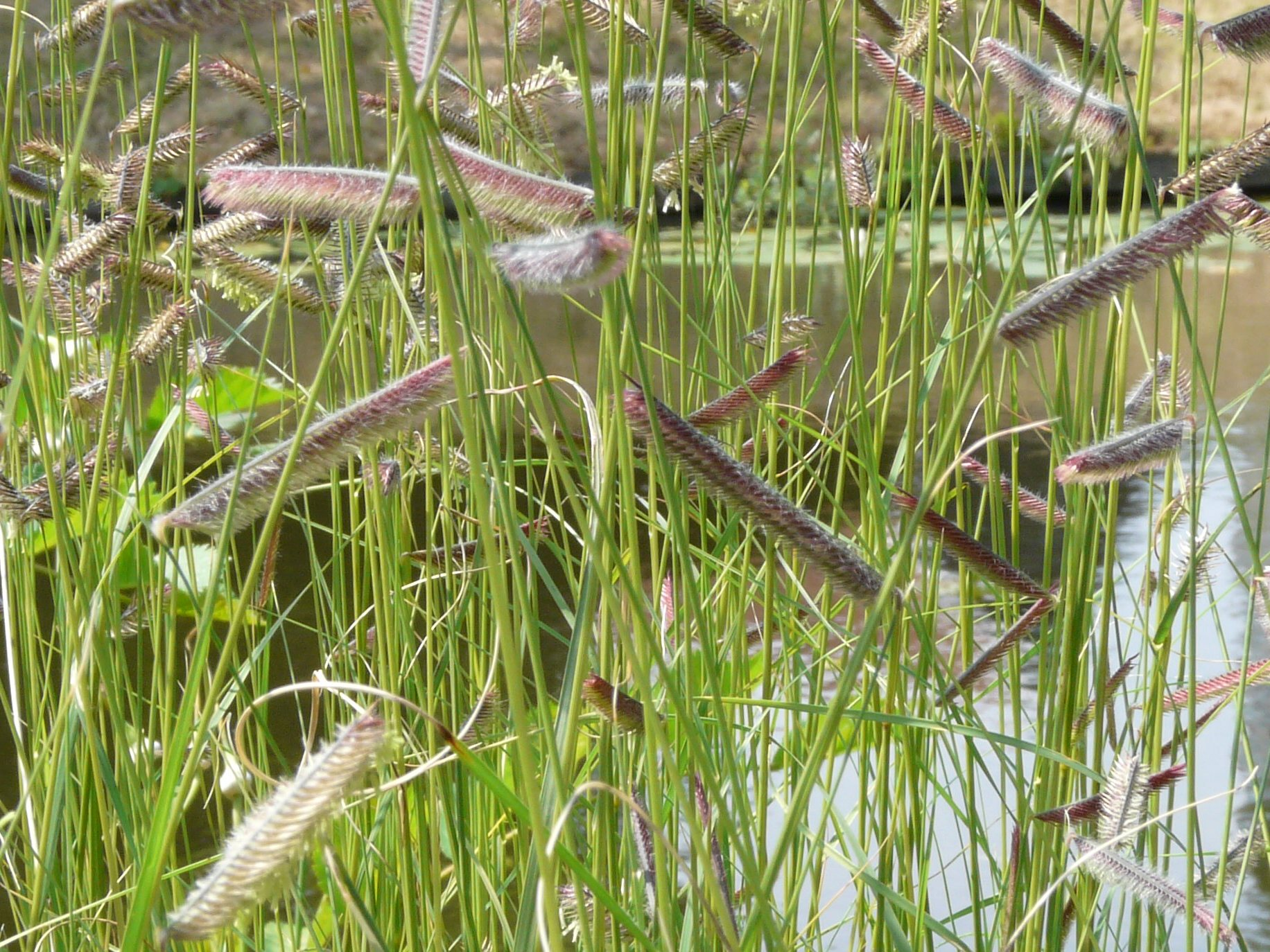 Bouteloua gracilis (Botanical Gardens Utrecht)